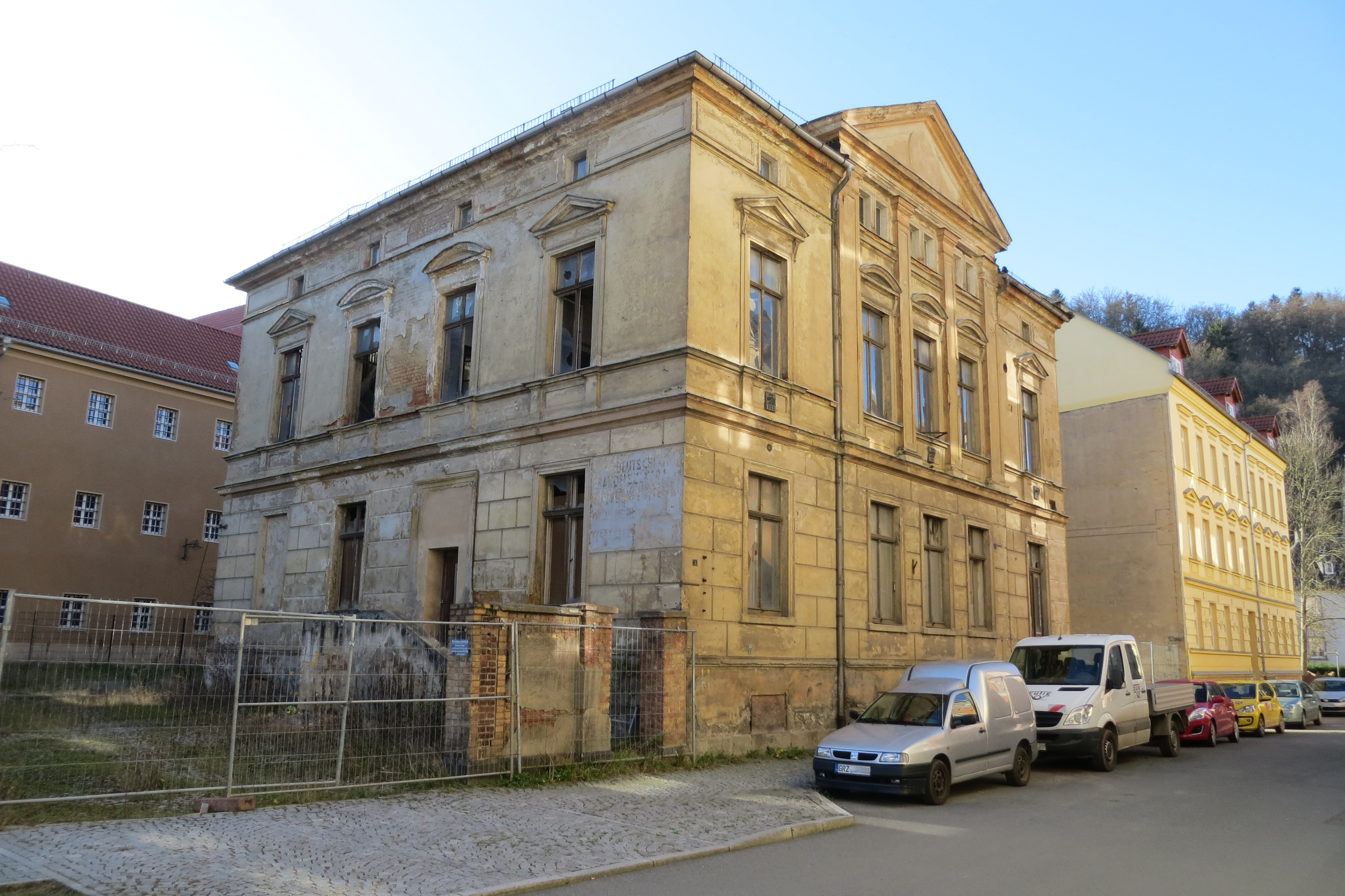 Former home of the Masonic Lodge in Greiz